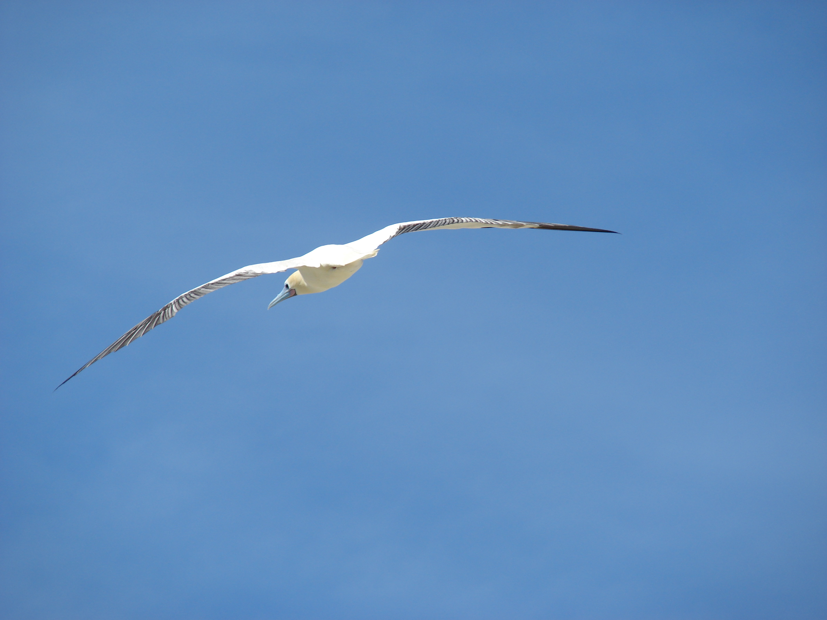 Sula sula (Red-footed Booby) flying. Location: Midway Atoll, Spit Island